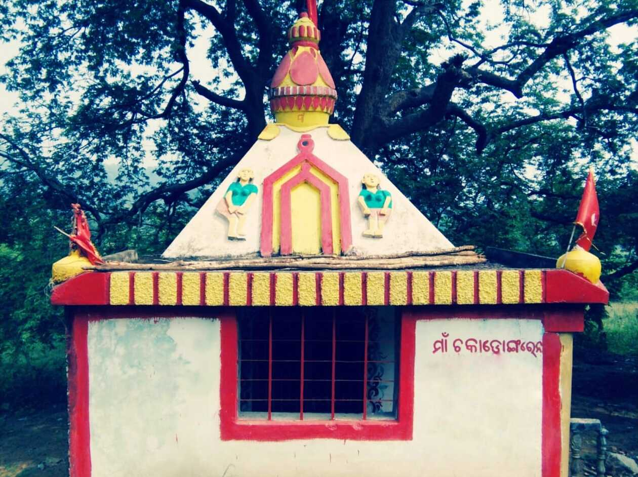 Maa Chakadongaren Temple is the village deity of the village BARGAON and nearby.